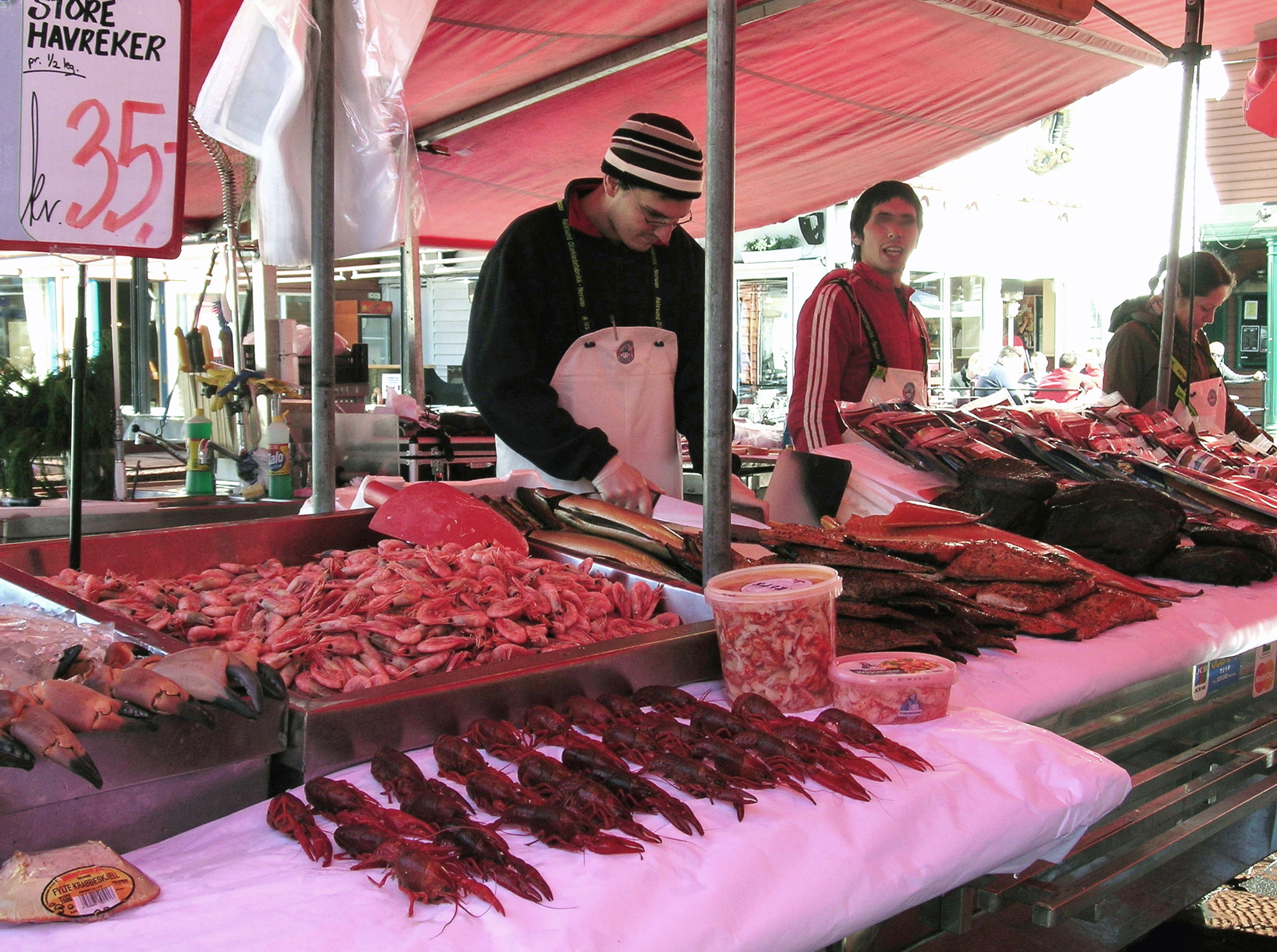 Fish market, Bergen, Norway